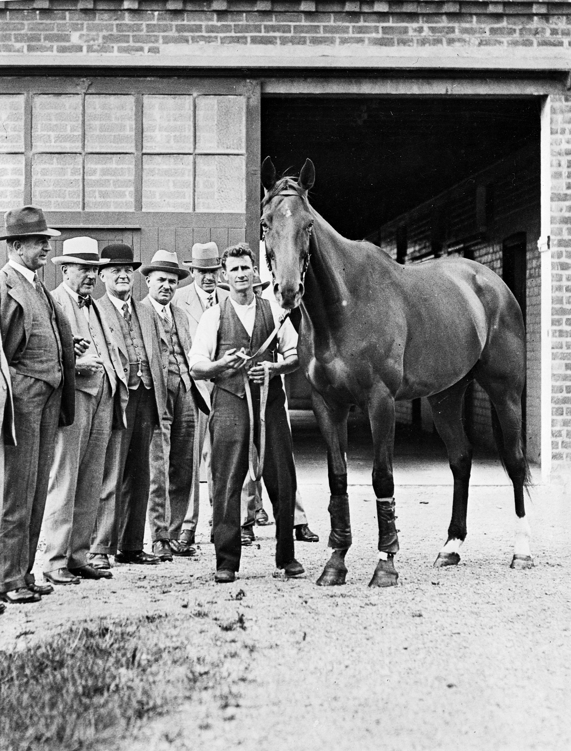 Racing horse Phar Lap at Trentham before his trip to the United States, with his attendant Tommy Woodcock. Standing nearby are, left to right, Rt Hon Joseph Gordon Coates, Oswald Stephen Watkins, David Jones, Brigadier James Hargest and Adam Hamilton.